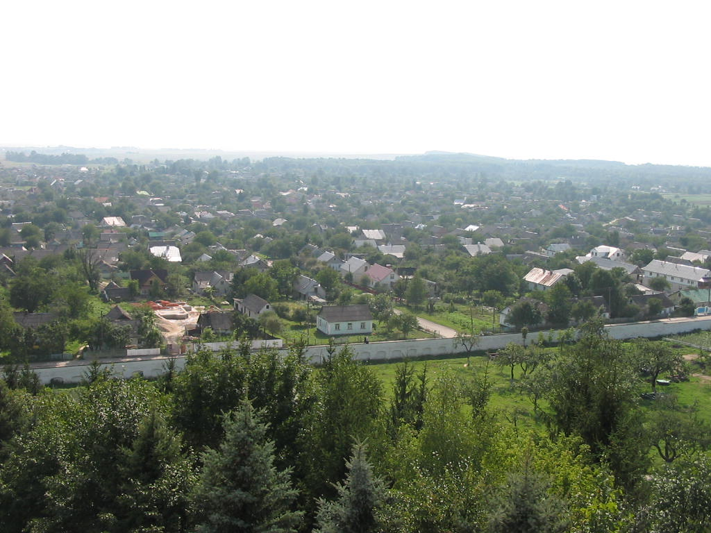 Panorama of town of Pochayiv, in Ternopil oblast of western Ukraine.